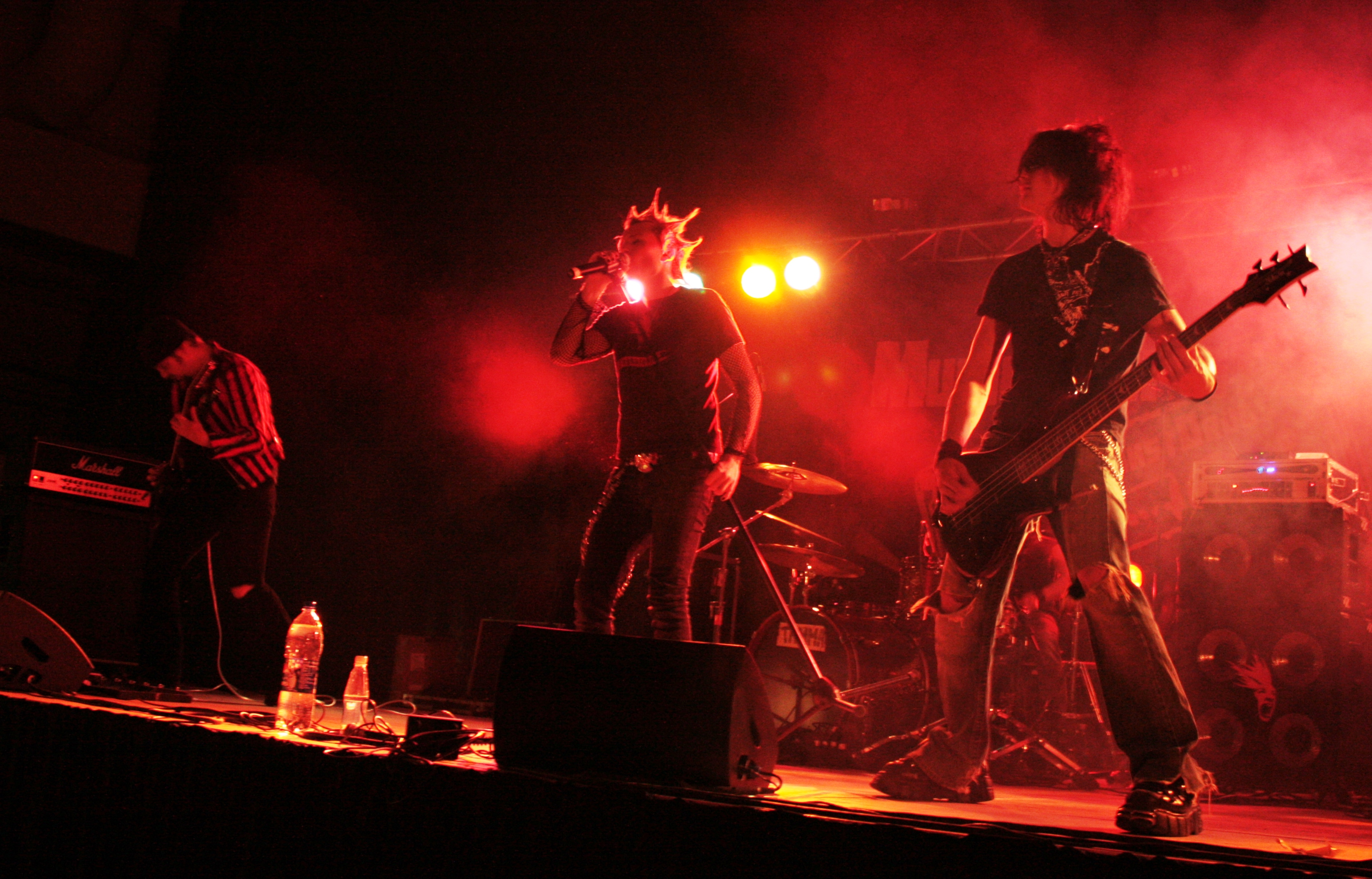 Tuhkalehto peforming